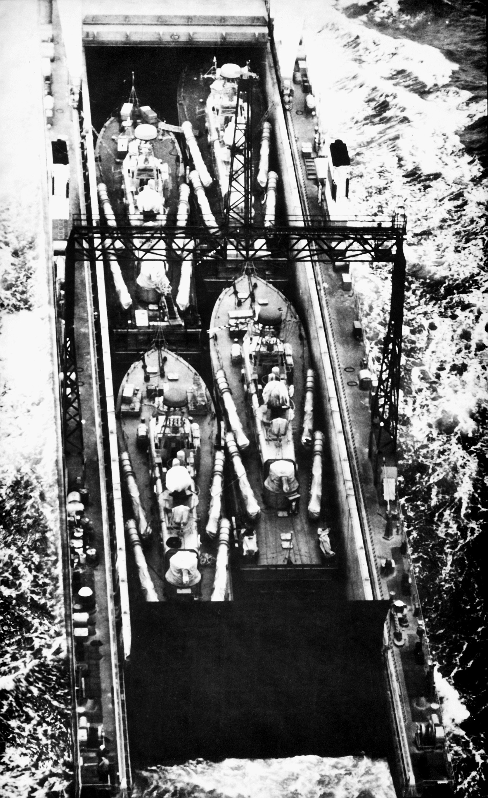 An overhead view of four project 206 (NATO code - Shershen class) torpedo boats being transported aboard a Soviet roll-on/roll-off cargo ship.